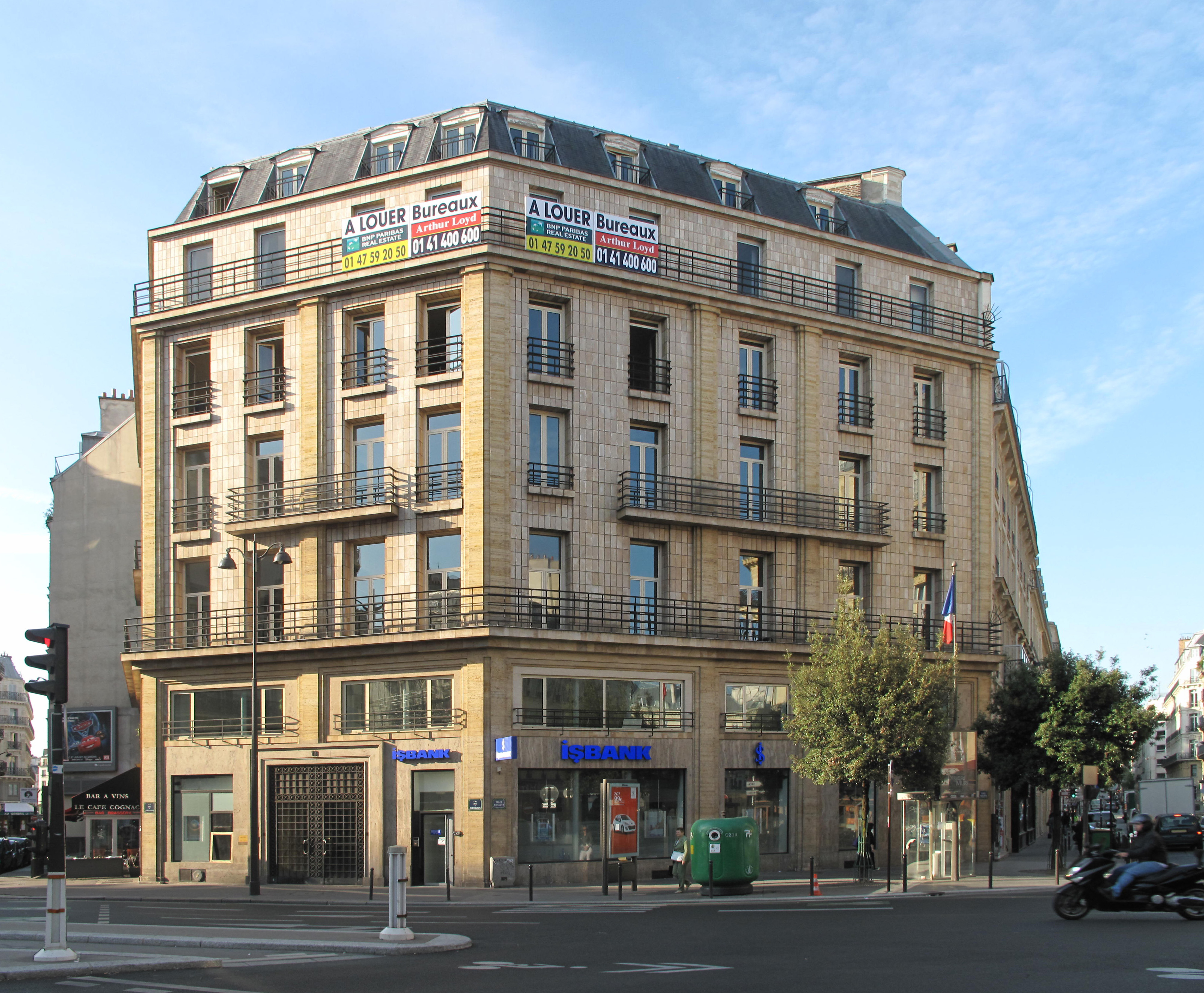 Building 44 rue le Peletier, former head office of Central Comity of the French Communist Party (before the construction of the building place du Coloniel Fabien). Paris 9th arrond.